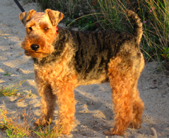 Welsh Terrier on the beach